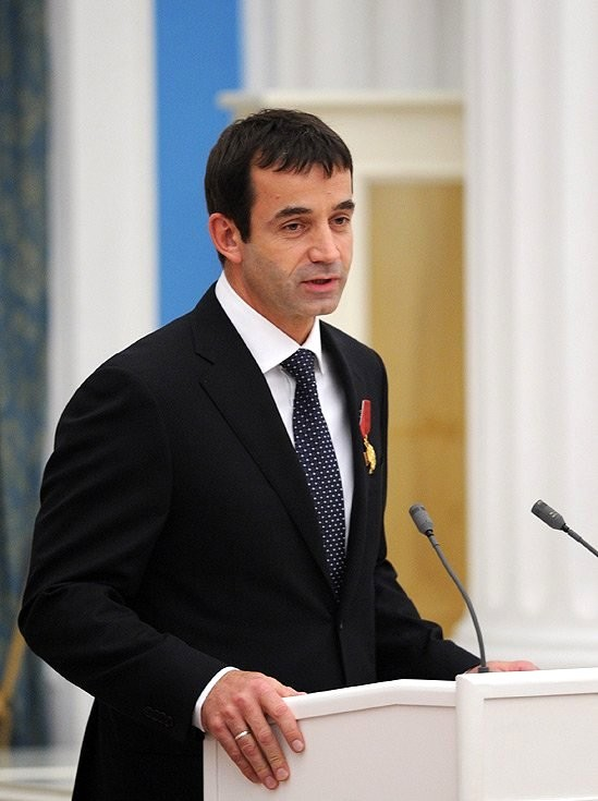 Russian actor Dmitry Pevtsov at award ceremony. Moscow, Kremlin. 29 Oct 2013.